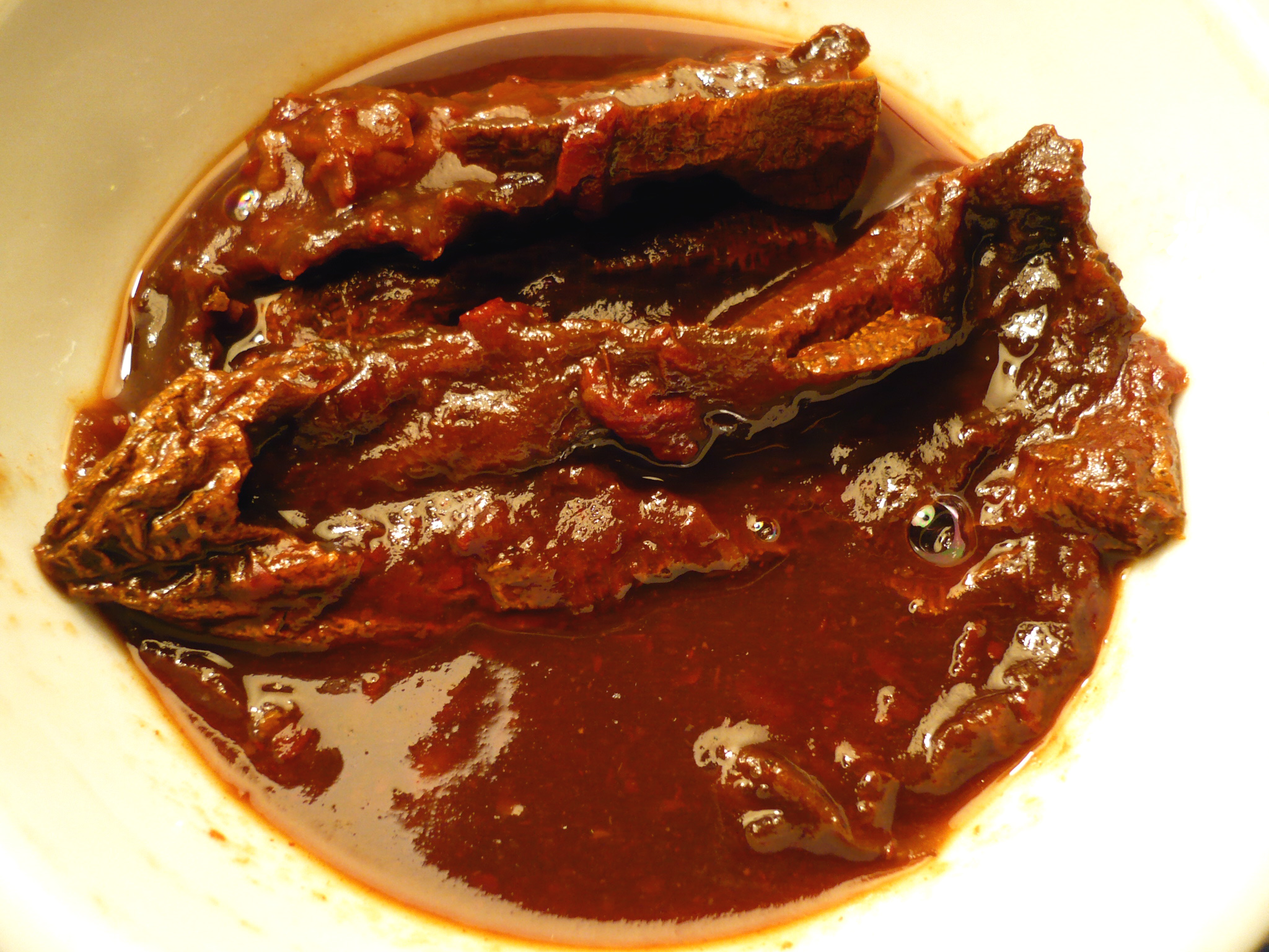 A small bowl of homemade chipotles en adobo. Photo taken in Kent, Ohio with a Panasonic Lumix digital camera (model DMC-LS75). Ingredients: dried chipotle chili peppers (brown chile meco variety), dried ancho chili peppers, tomato paste, apple cider vinegar, sugar, salt, garlic, oregano, ground cumin, and black pepper.